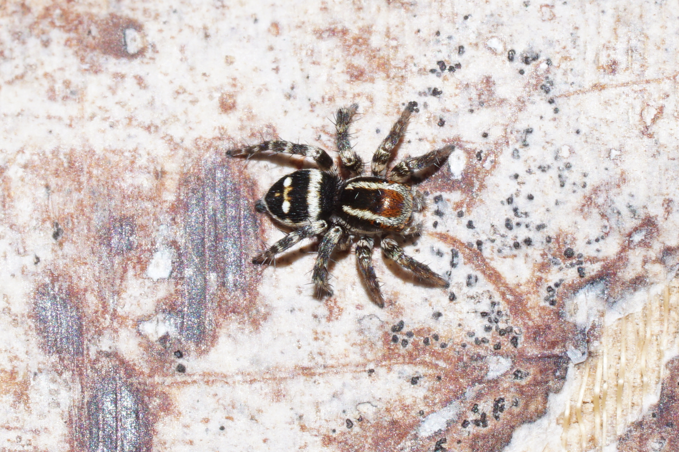 Stenaelurillus albus